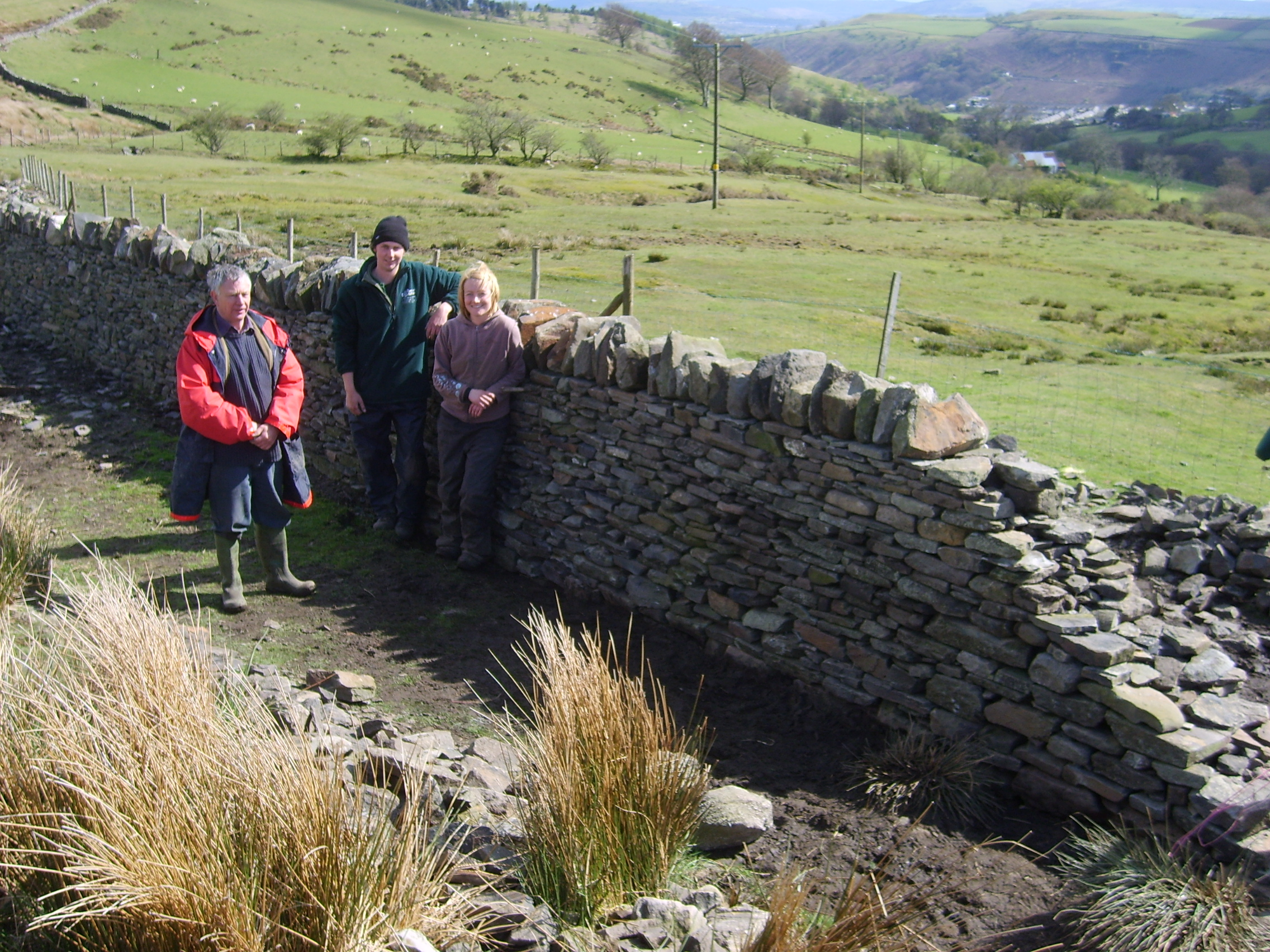 Dry stone wall building in Wales